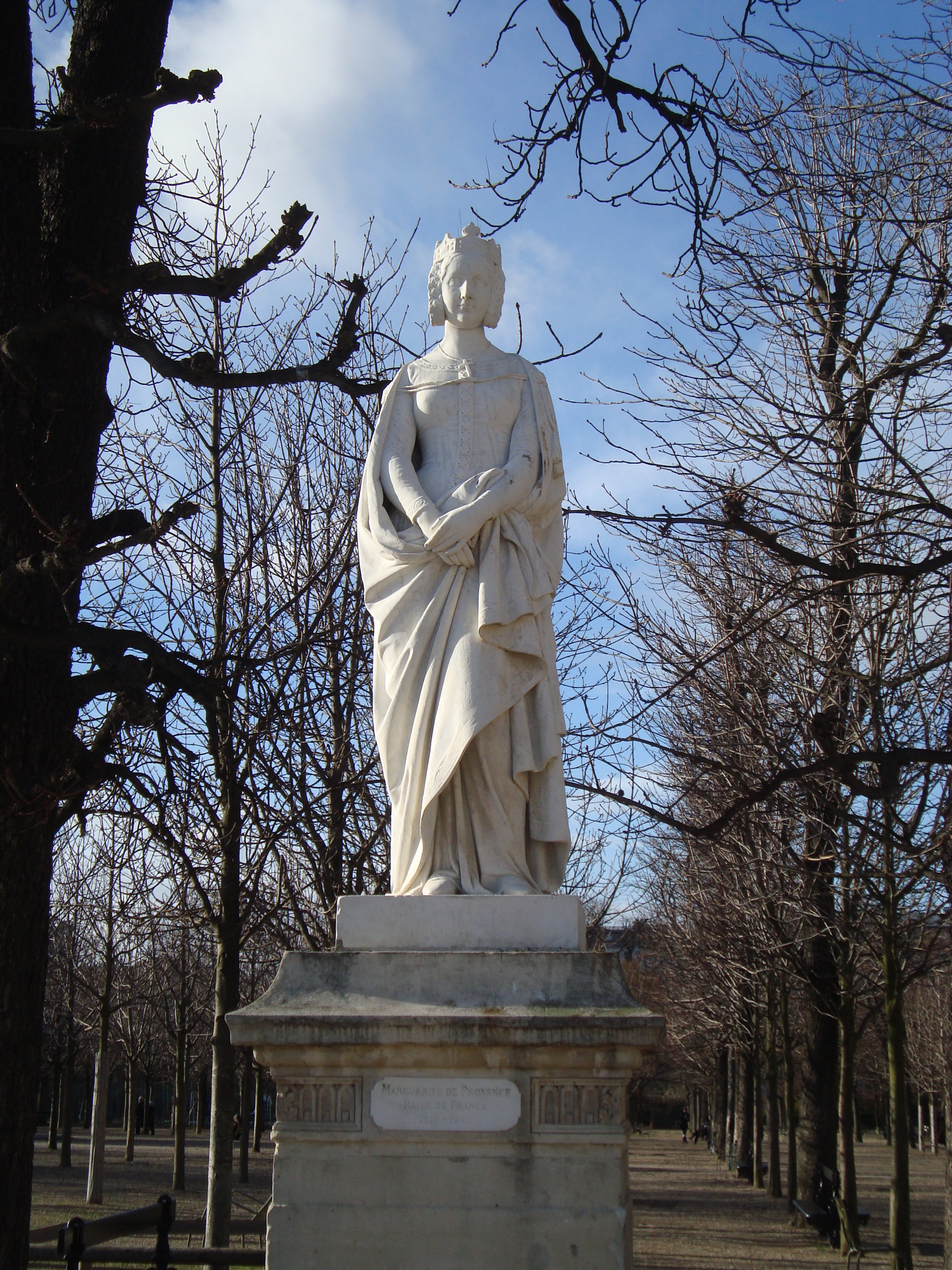 Statue of Marguerite de Provence in the Jardin du Luxembourg, Paris